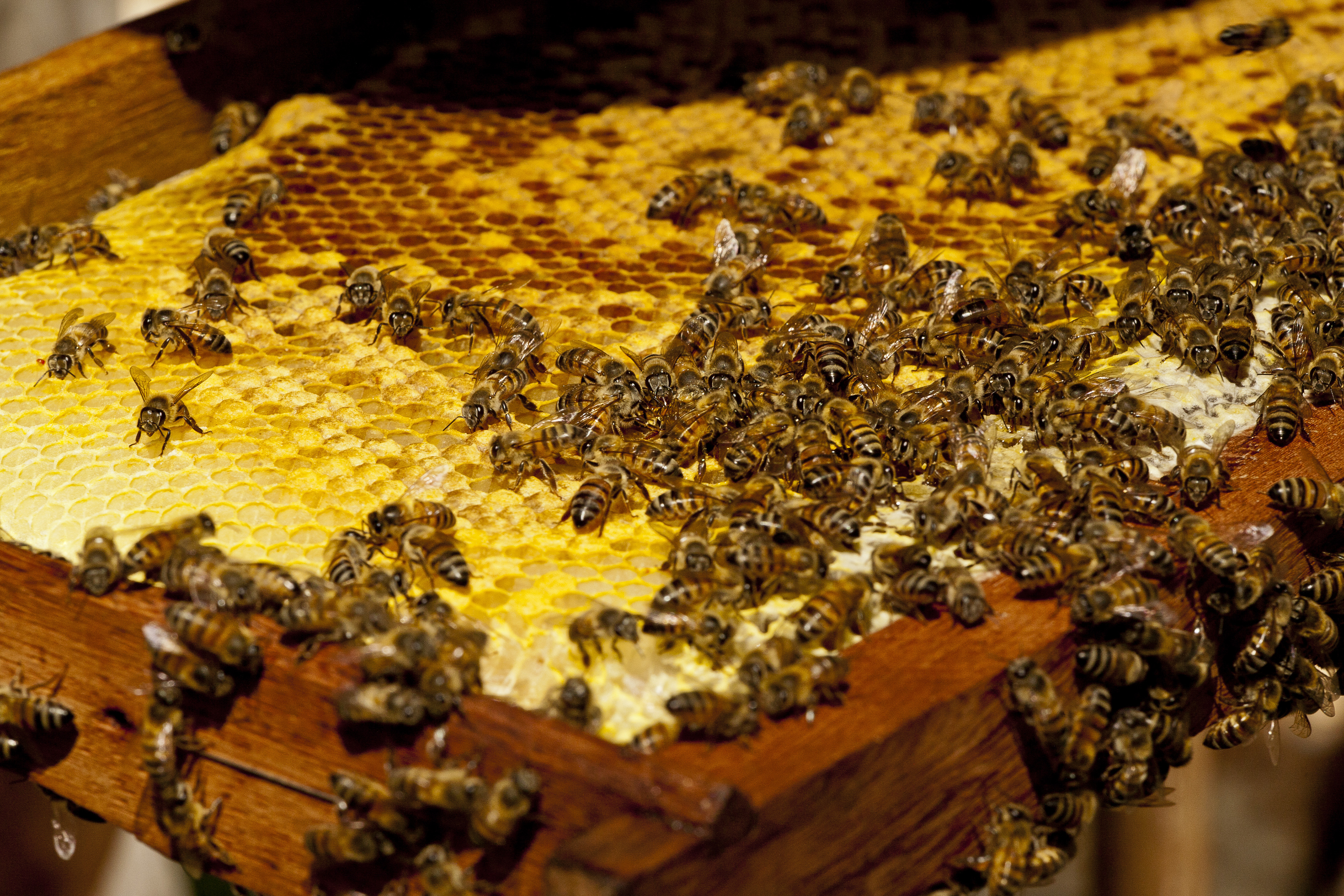 honey harvest with wax comb